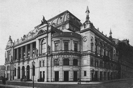 Warsaw Philharmonic.